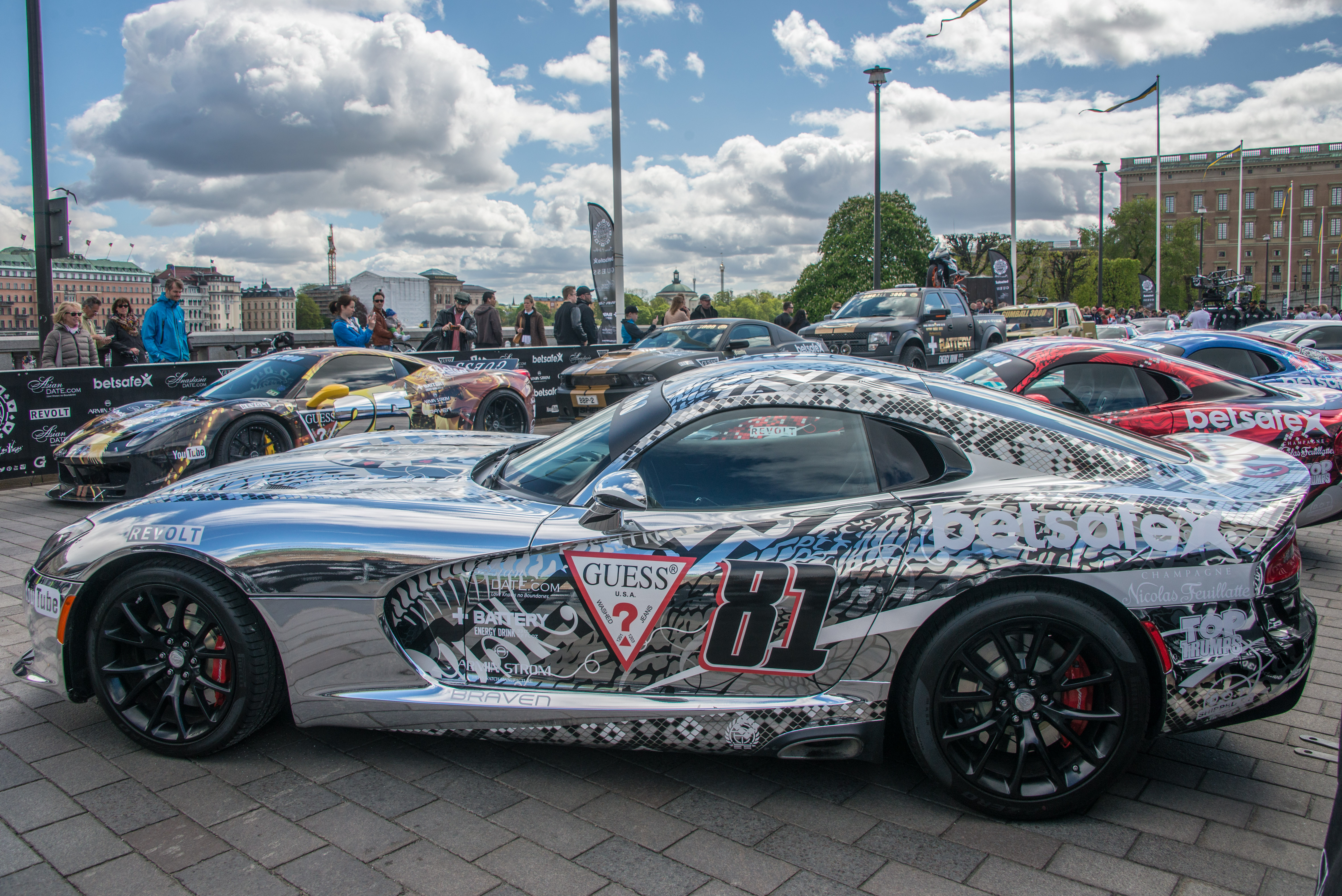 2015 Gumball 3000 starts from Stockholm, May 24.